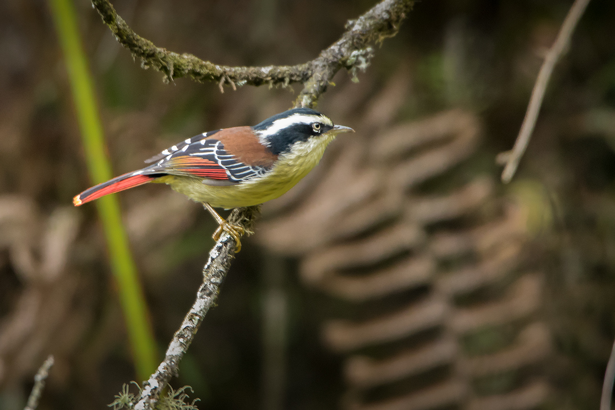 at Sikkim, India